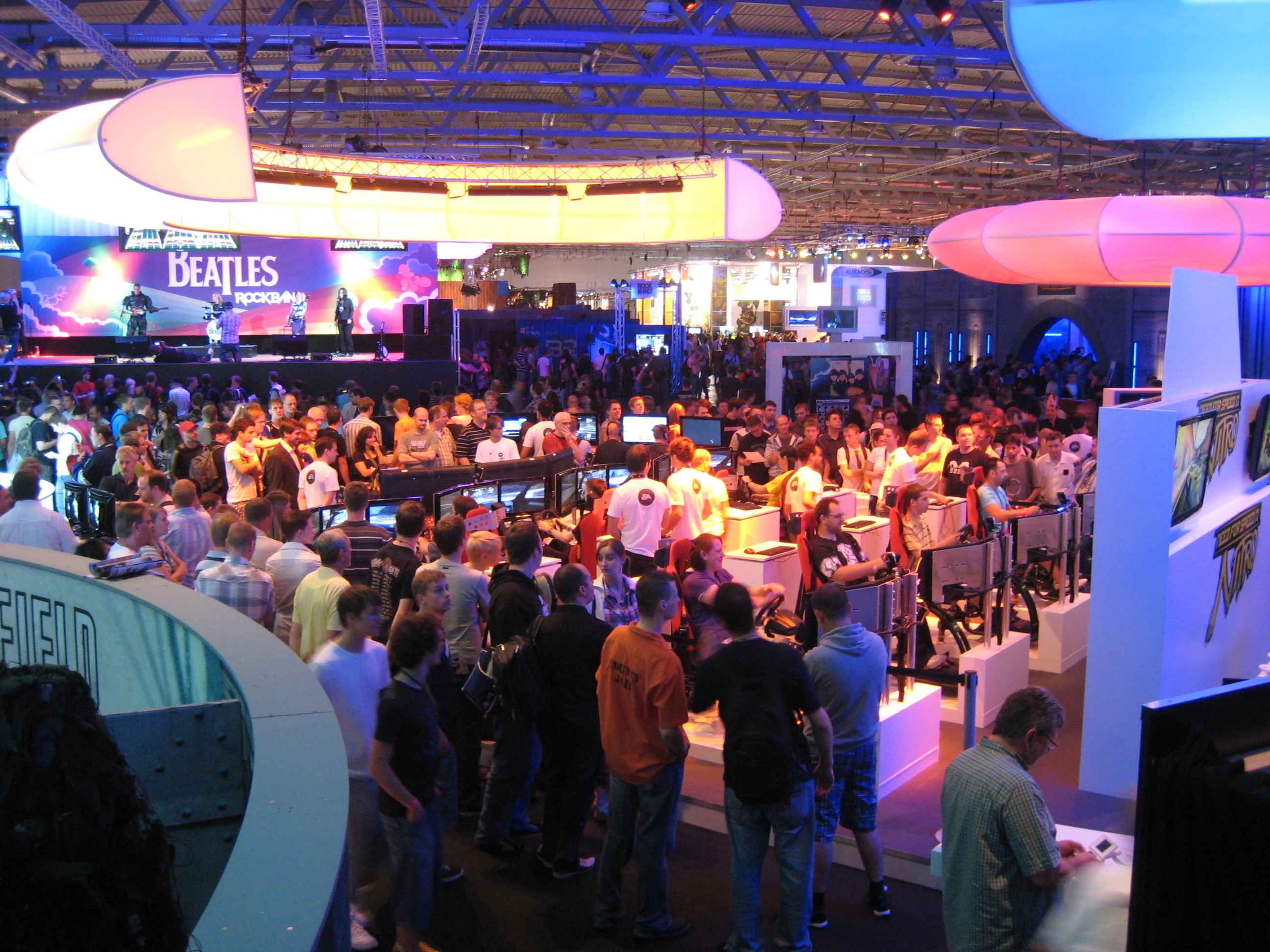 The booth of Electronic Arts at the Gamescom 2009